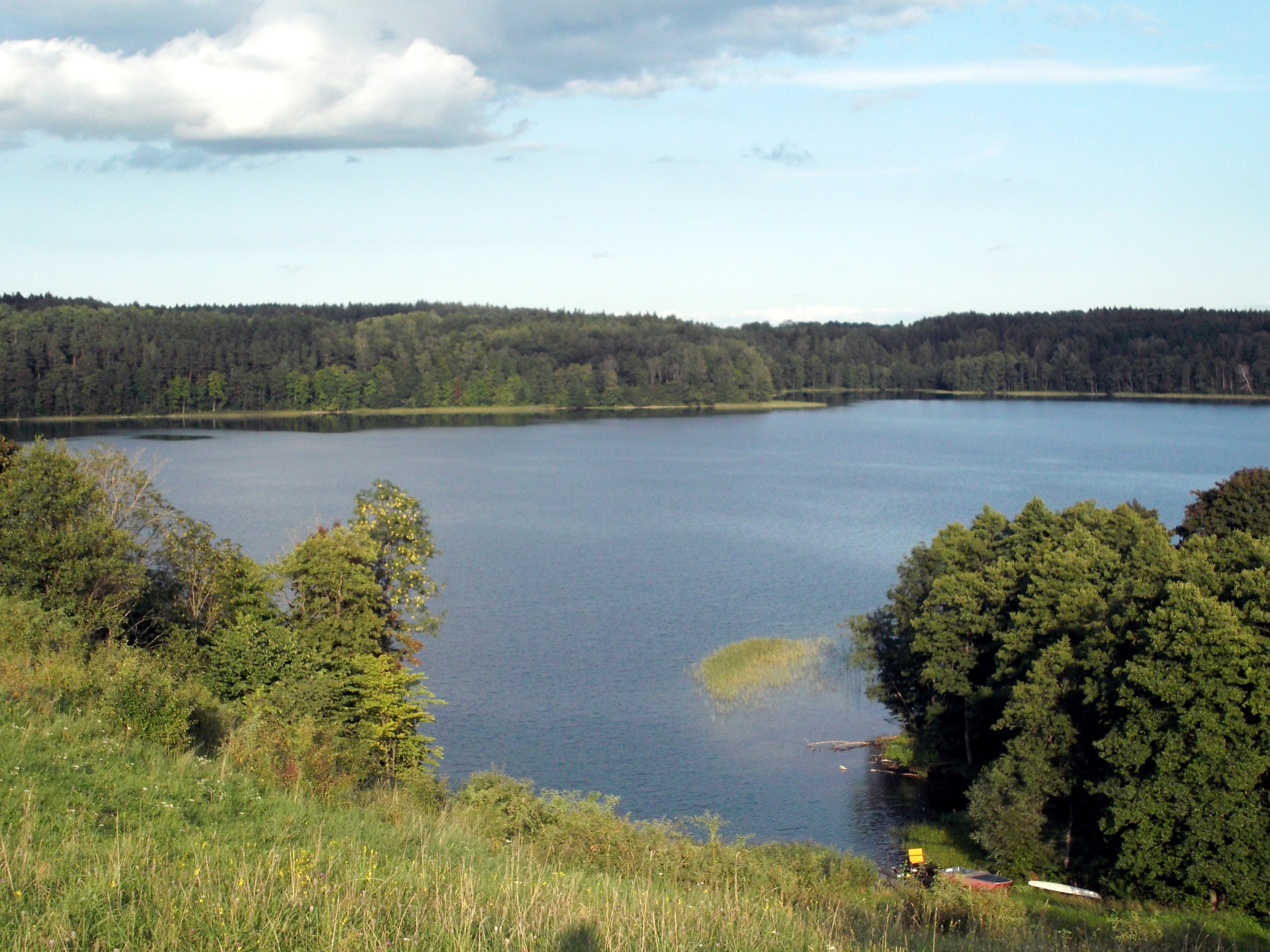 Lake Hańcza near village Mierkinie in Suwałki Landscape Park (Poland). This is a photography of protected area with CRFOP ID PL.ZIPOP.1393.PK.76